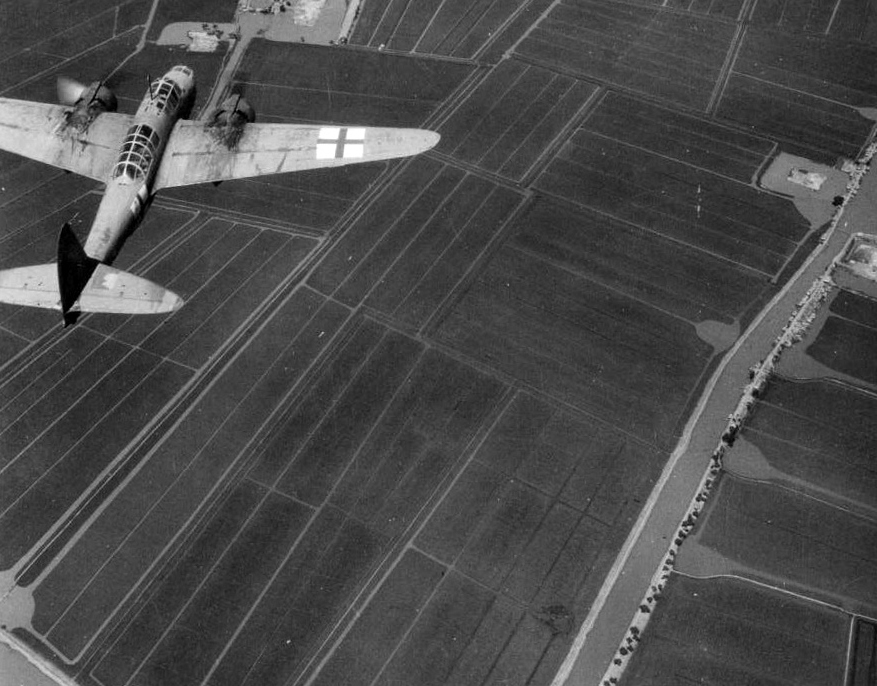 Air-to-air view of a Mitsubishi Ki-21 bomber (Allied code name: "Sally") in flight over China with unidentified red cross insignia on the aircraft as seen from a U.S. Navy Consilidated PB4Y-1 Liberator aircraft from Patrol Bombing Squadron VPB-104. The squadron operated from Clark Field, Luzon (Philippines), from March to October 1945.